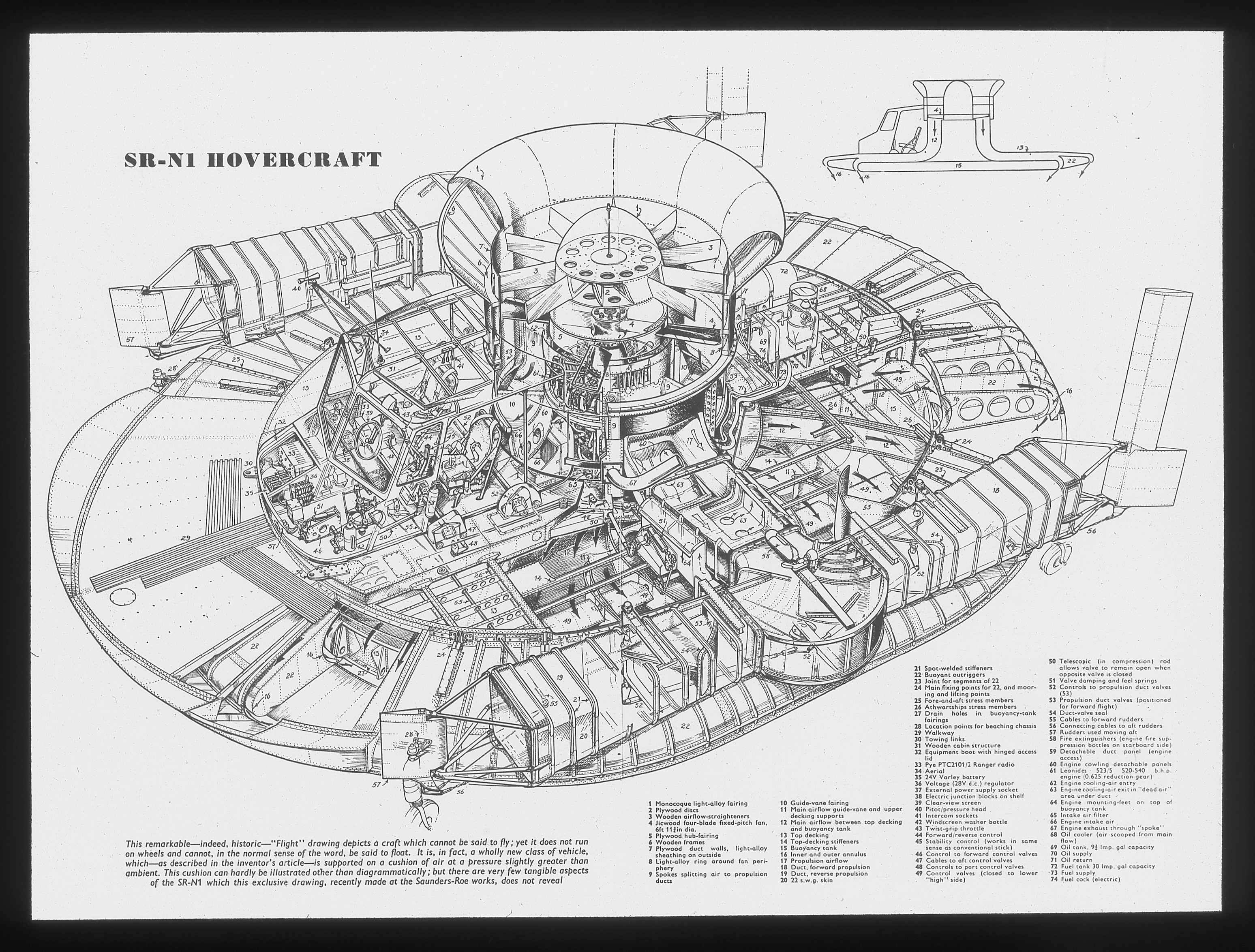 Cutaway drawing of the Saunders-Roe SR.N1 hovercraft